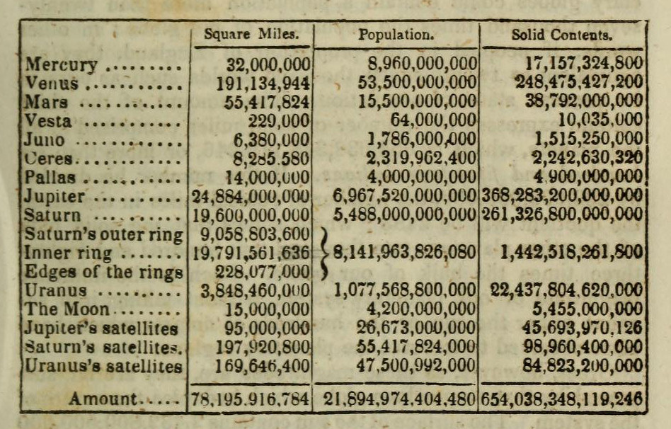 Thomas Dick believed in the plurality of worlds, that every planet in the Solar System was inhabited. He calculated the population of each planet using the surface area and the population density of England. The total population of the Solar System is given as 21,894,974,404,480. From: Celestial scenery; or, The wonders of the planetary system displayed, p305